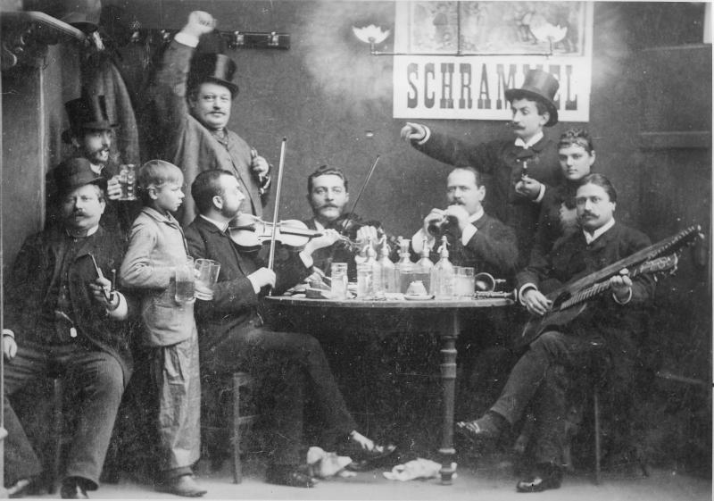 Johann and Josef Schrammel's Schrammel Quartet, standing in the left corner the folk vocalist Carl Schmitter